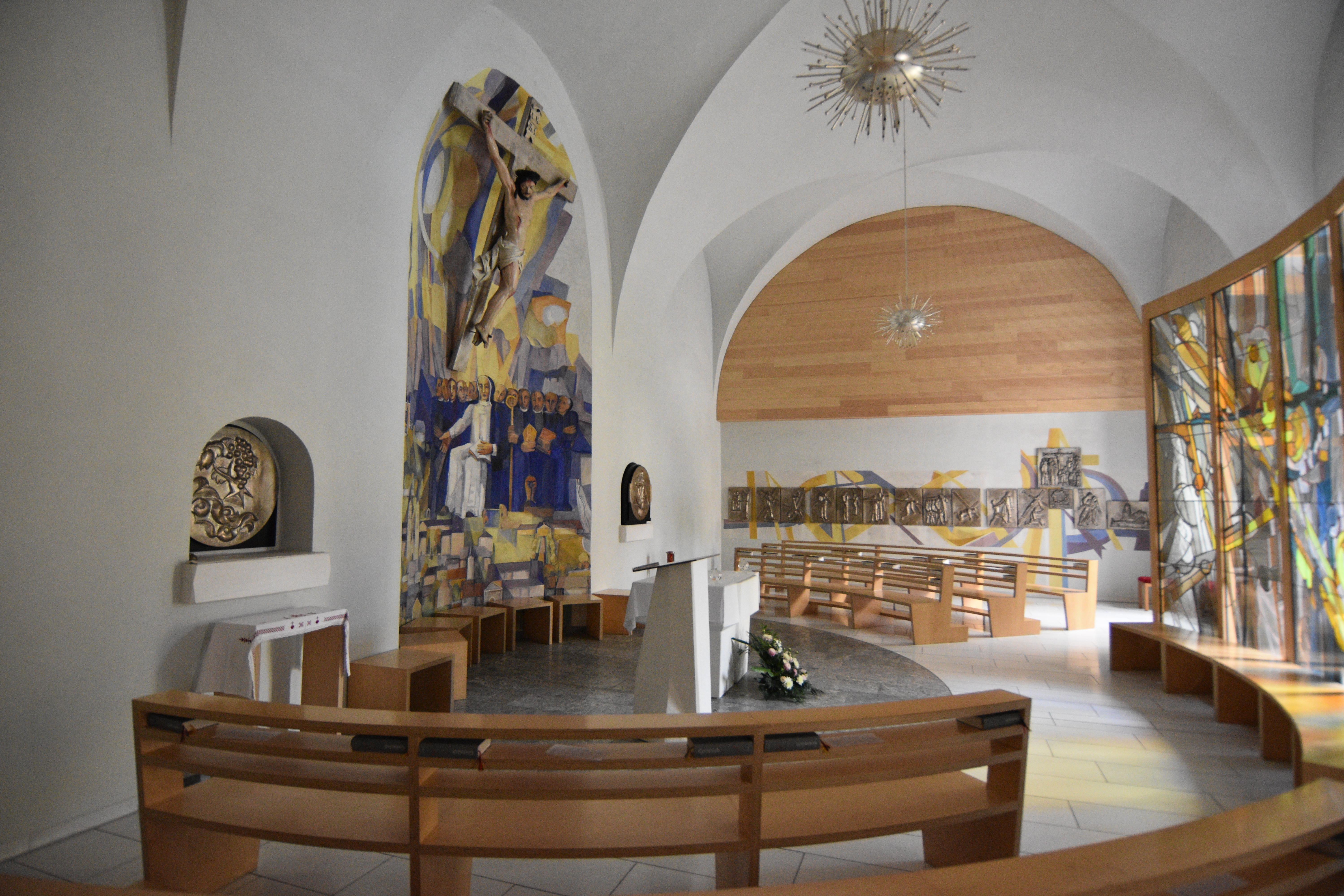 Chapel Benediktuskapelle (Admont)